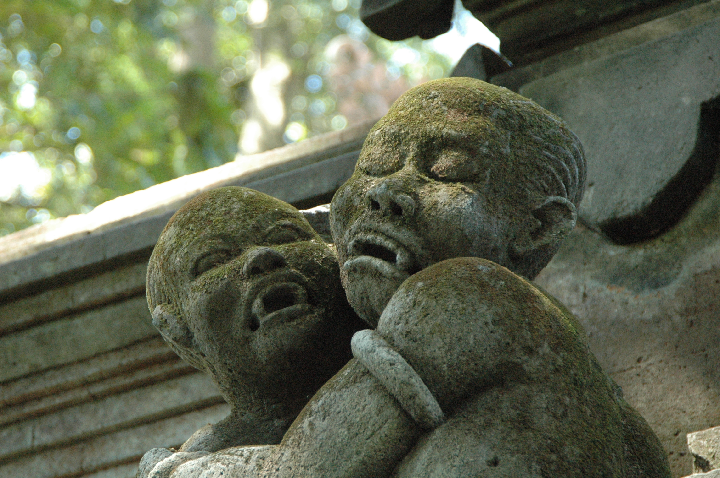 A statue outside the Monkey Forest Temple in Ubud, Bali, Indonesia.